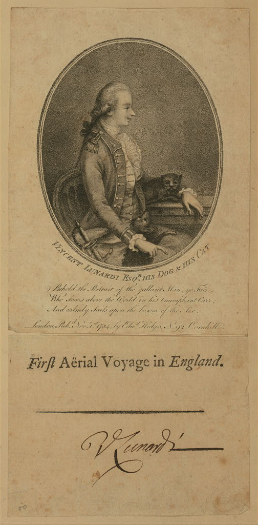 Half-length portrait of Italian balloonist Vincenzo Lunardi, shown with his pets and tribute verse below the image.